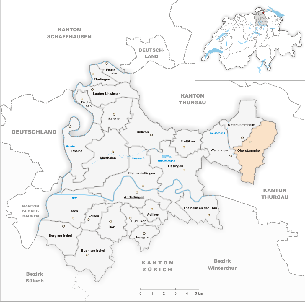 Municipality Oberstammheim